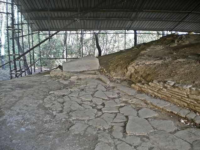 Tumul B